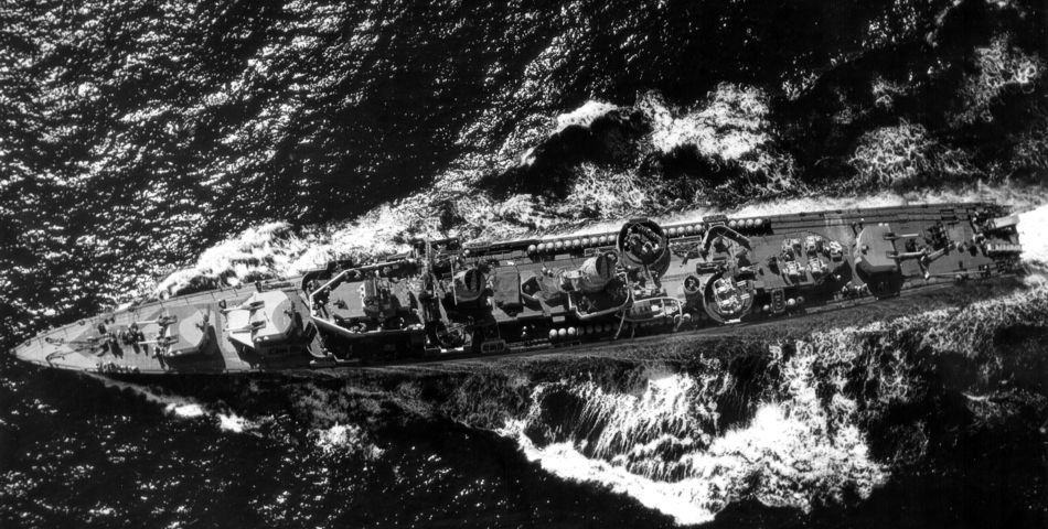 The U.S. Navy destroyer minelayer USS Robert H. Smith (DM-23) underway, circa in 1944. Note the mines carried.